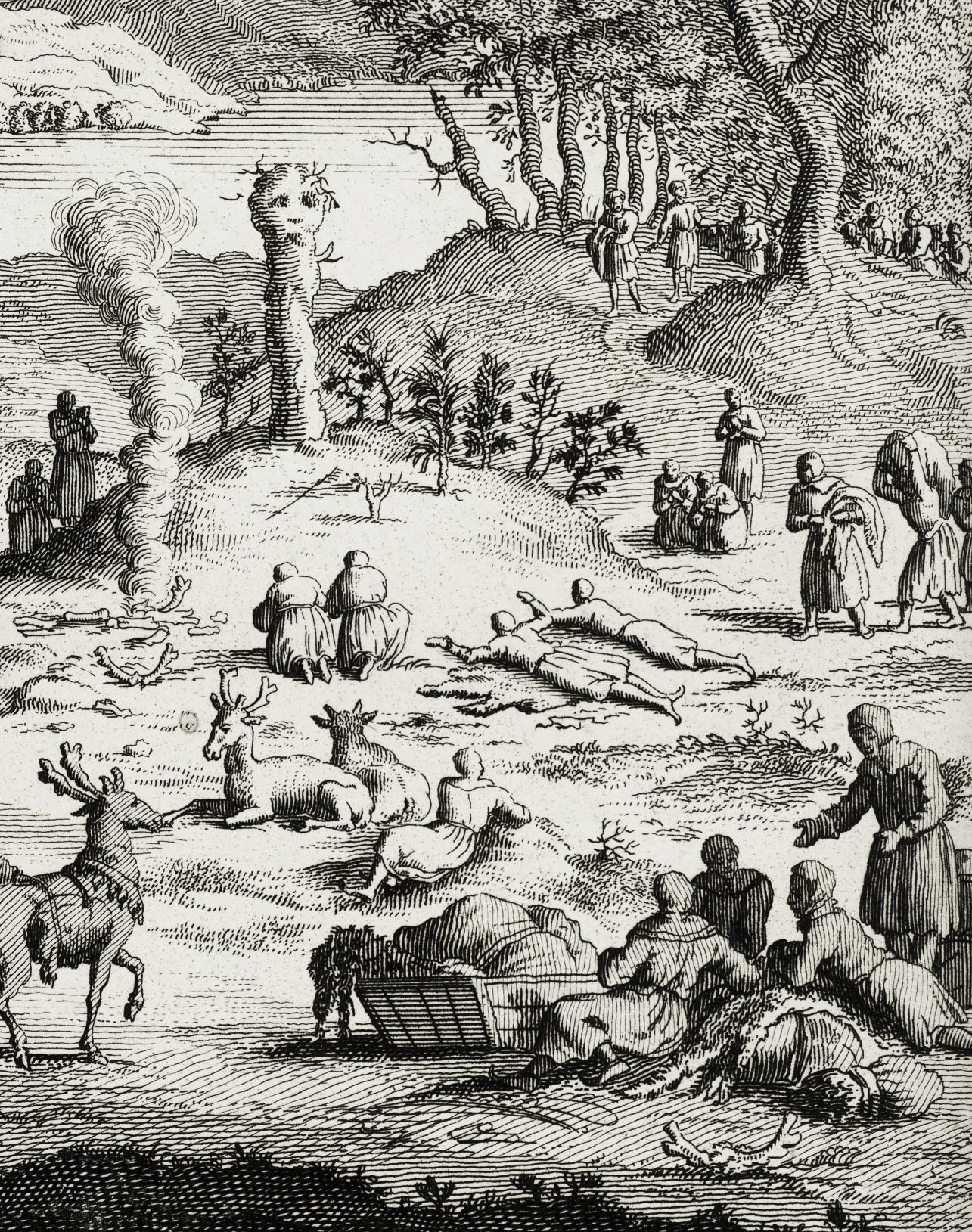 Sami People of the Nordic areas (Norway, Sweden and Finland) is offering and praying at a mound grave or tumuli. They are praying to the God of the Underworld. They offered horse’s and deer’s for the God worshipped at this sacred place. Bernard Picart used some of the same depictions of the ancient Sami religion as Johannes Scheffer or Johannes Schefferus had used for documenting the Laplander (i.e. Sami) people in the history book "Lapponia" (1673).